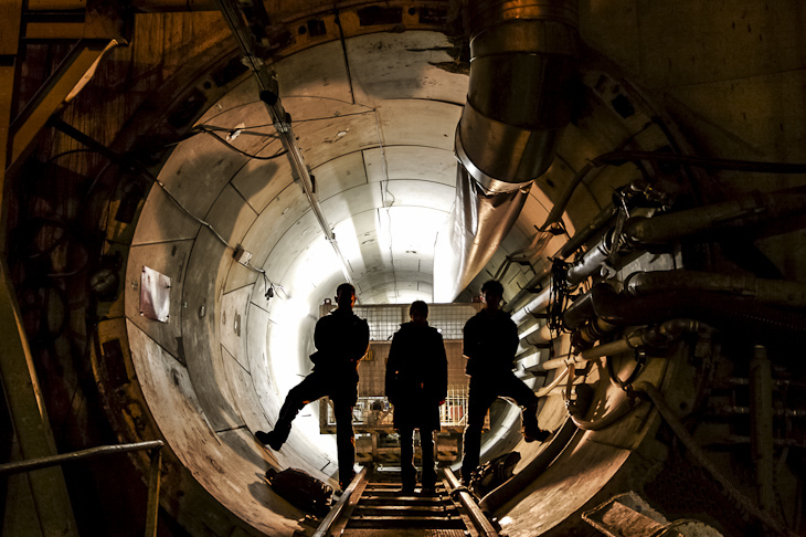 Three urban explorers to the entrance of a technical gallery during construction.